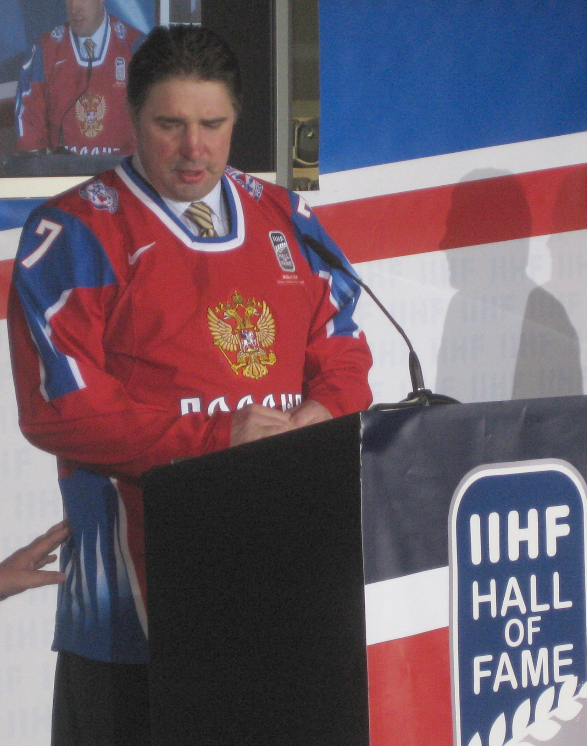 Alexei Kasatonov in Bern, Switzerland